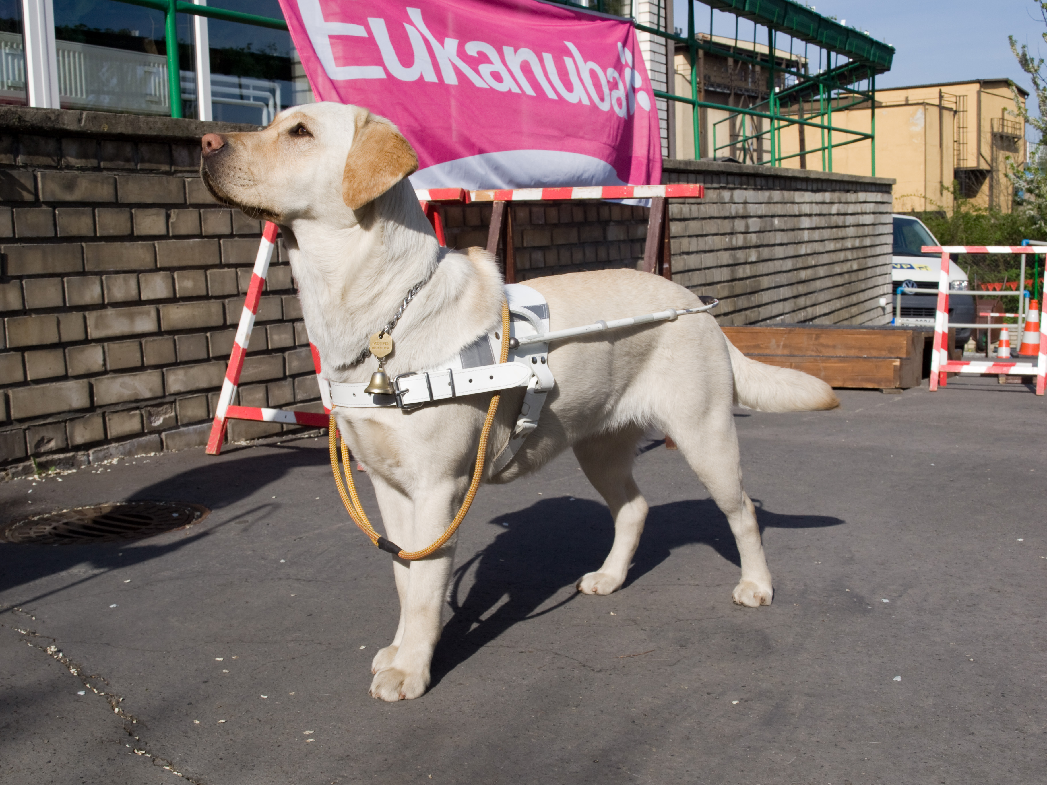 Dog guiding blind woman, Czech guide dog school Klikatá, Prague 5